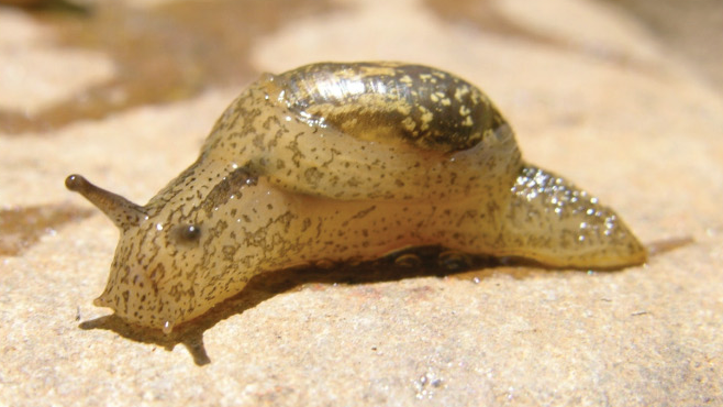 Photo of beige colored Omalonyx convexus (Heynemann, 1868).